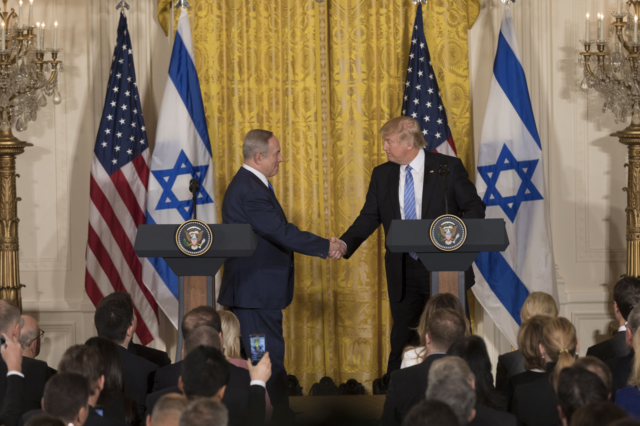 President Donald Trump and Israeli Prime Minister Benjamin Netanyahu shake hands during their joint press conference, Wednesday, Feb. 15, 2017, in the East Room of the White House in Washington, D.C. (Official White House Photo by Benjamin Applebaum)